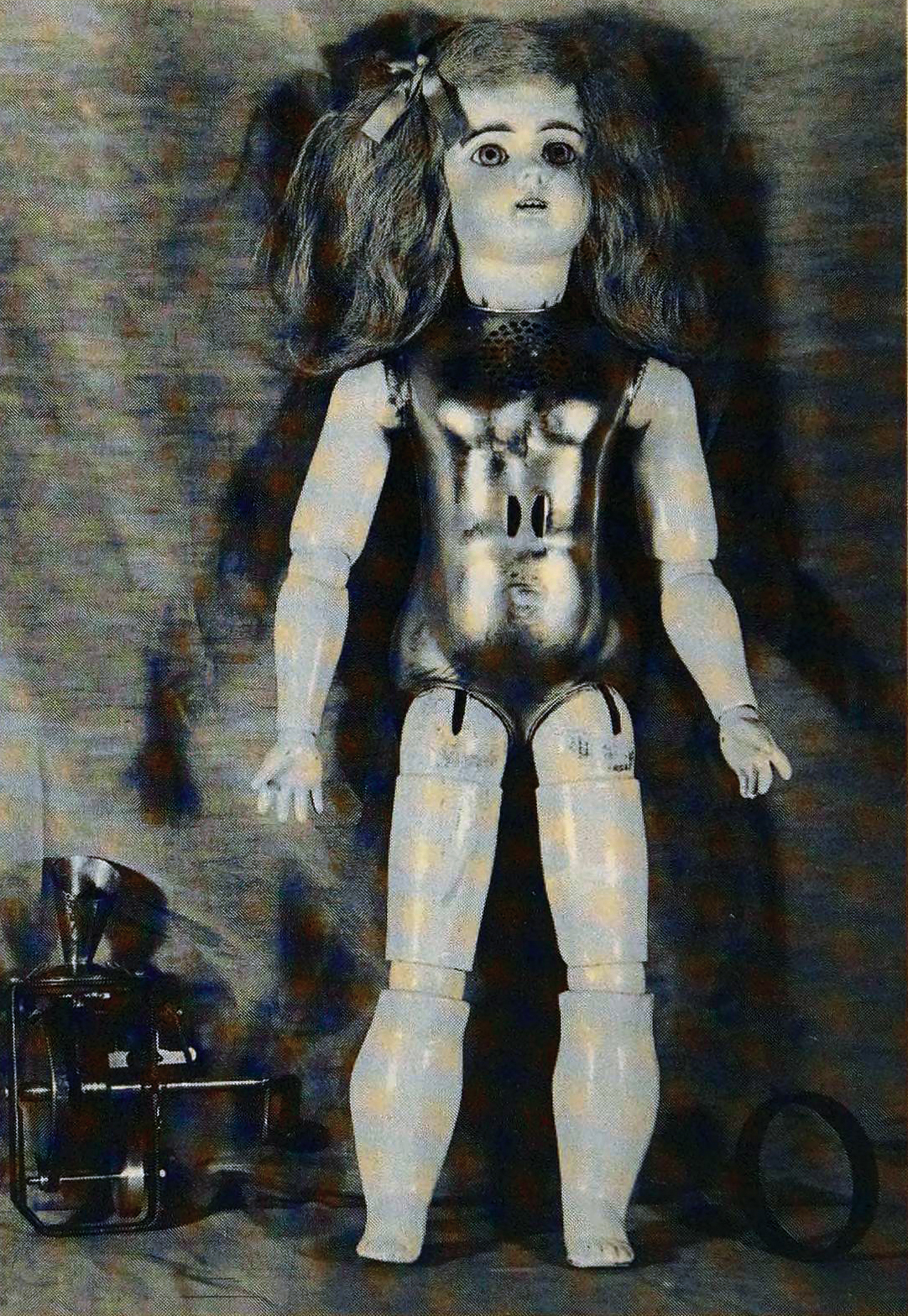 Photograph